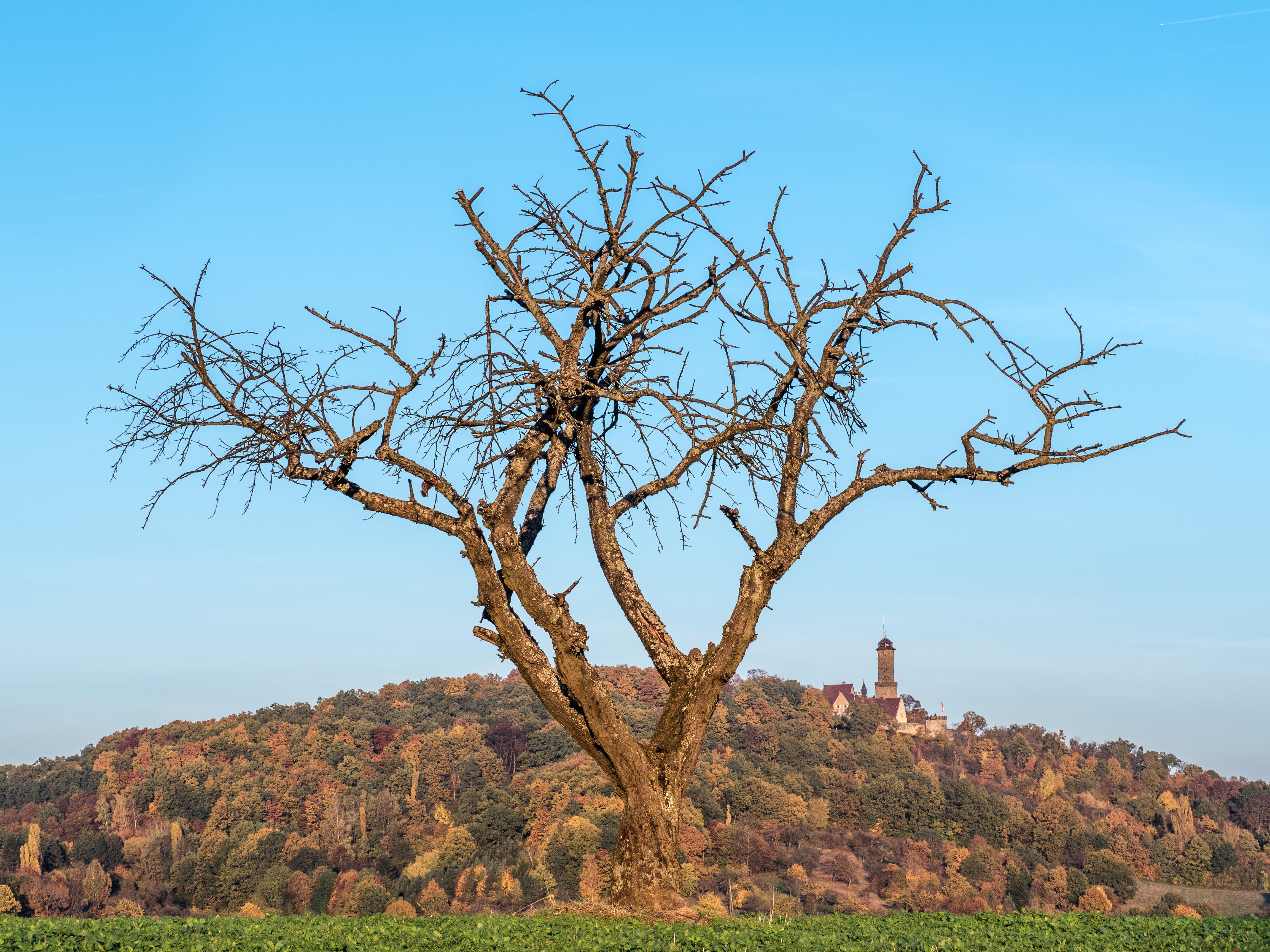 Altenburg-Rothof Protected Area in Bamberg